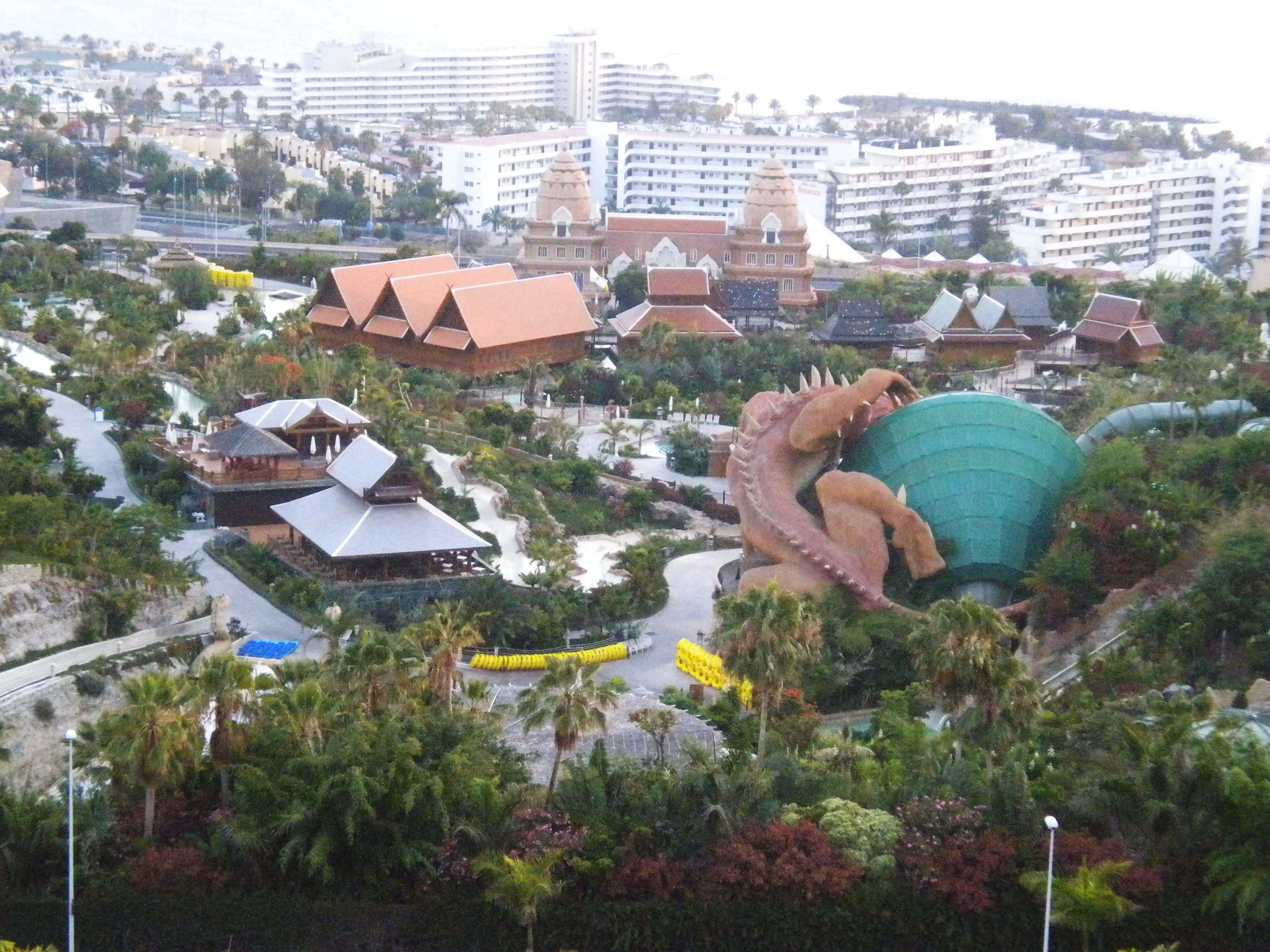 Siam Park.